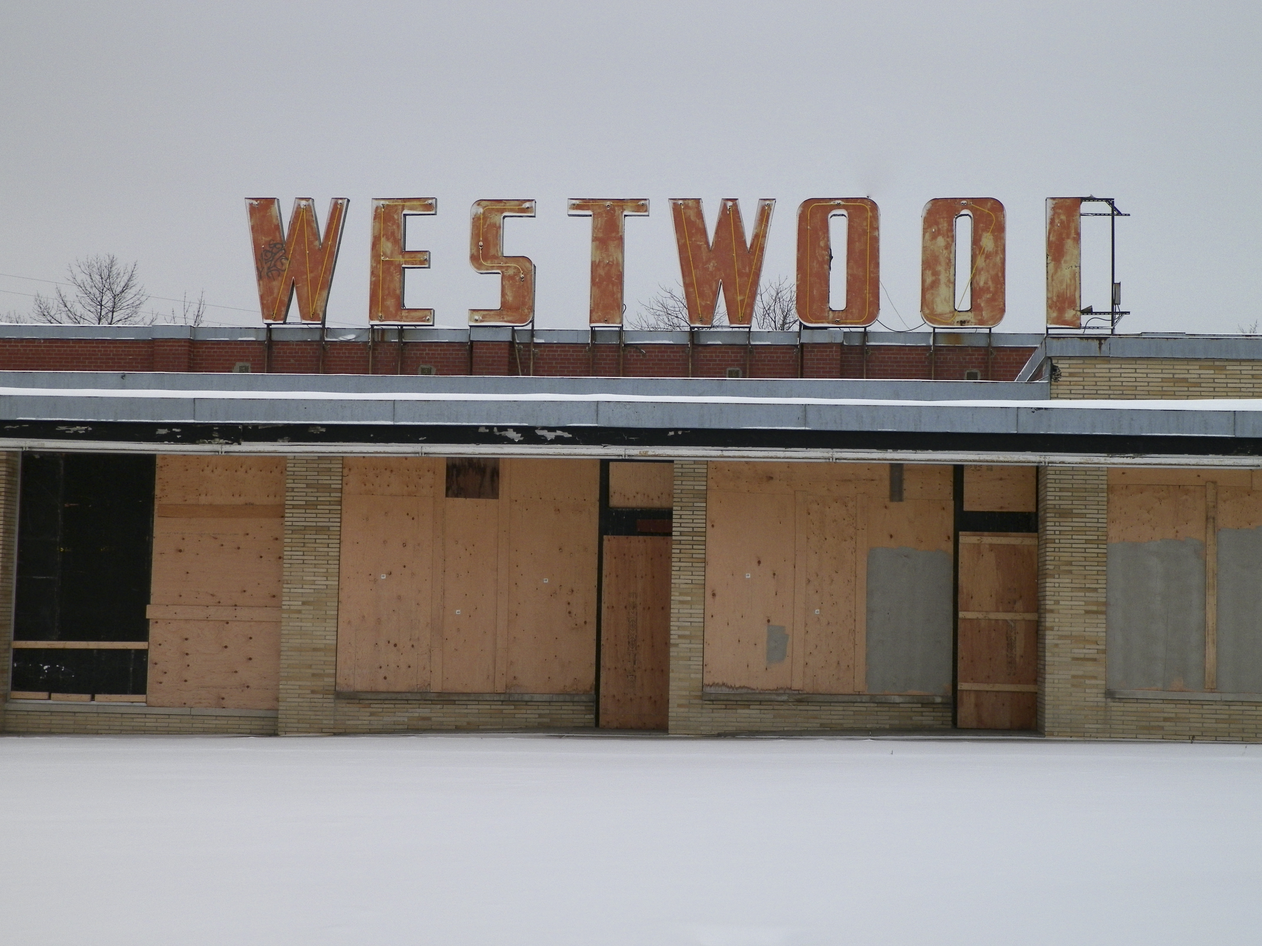 Old Westwood Movie Theatre Sign